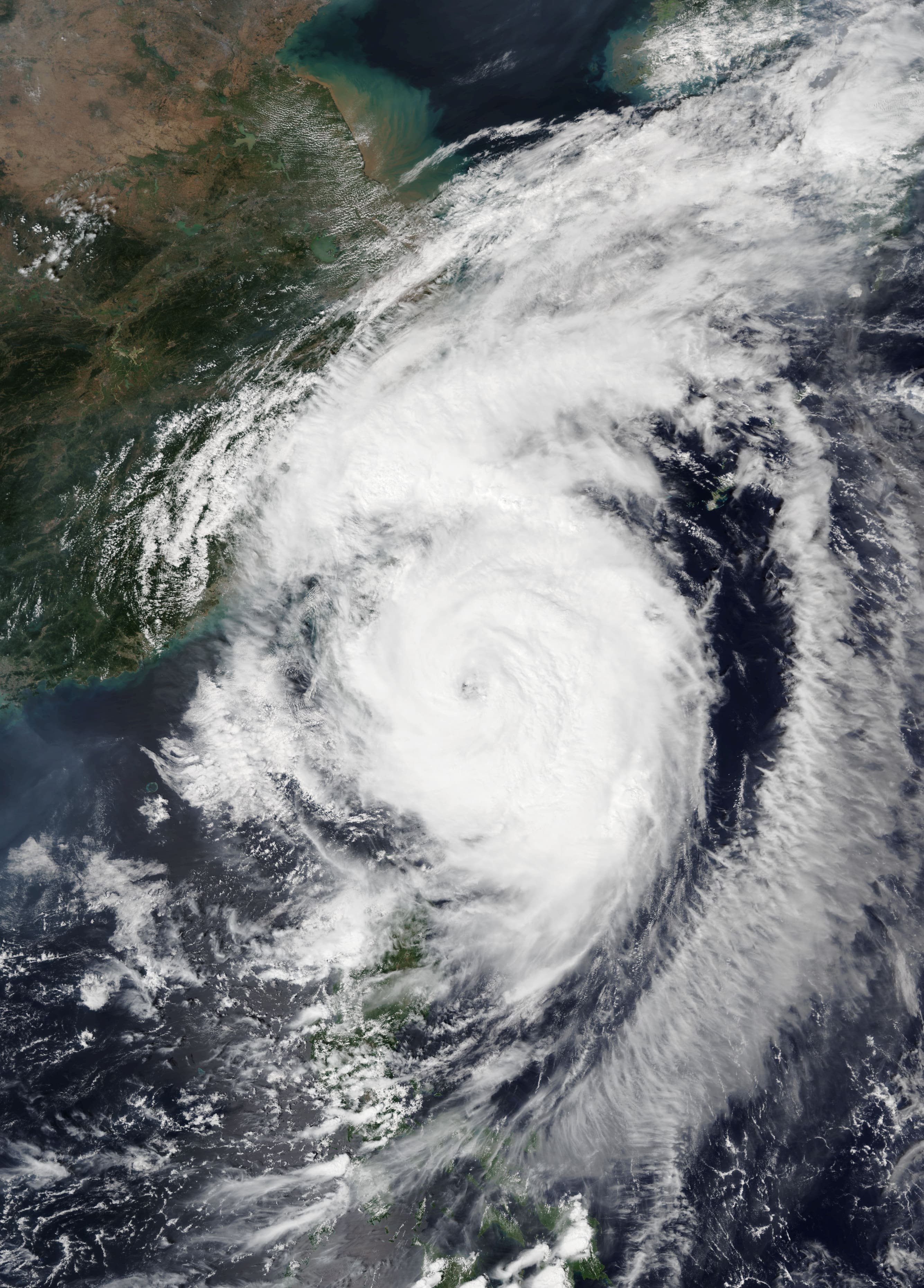 Typhoon Mitag (19W) to the east of Taiwan on September 30, 2019